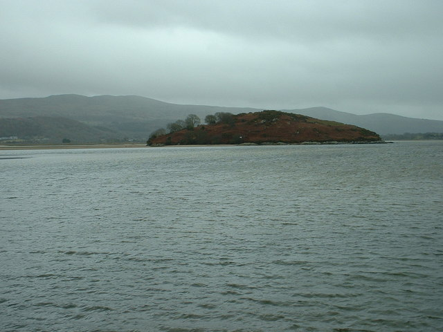 Ynys Gifftan. This is an island near the south east shore of Traeth Bach, the Dwyryd estuary. There is a public footpath to it across the estuary, but passable only at low tide - and even then, the water is usually at or above knee level. It's an exciting expedition to visit this now uninhabited island. There is a derelict farmhouse there, and some sheep grazing is still used.